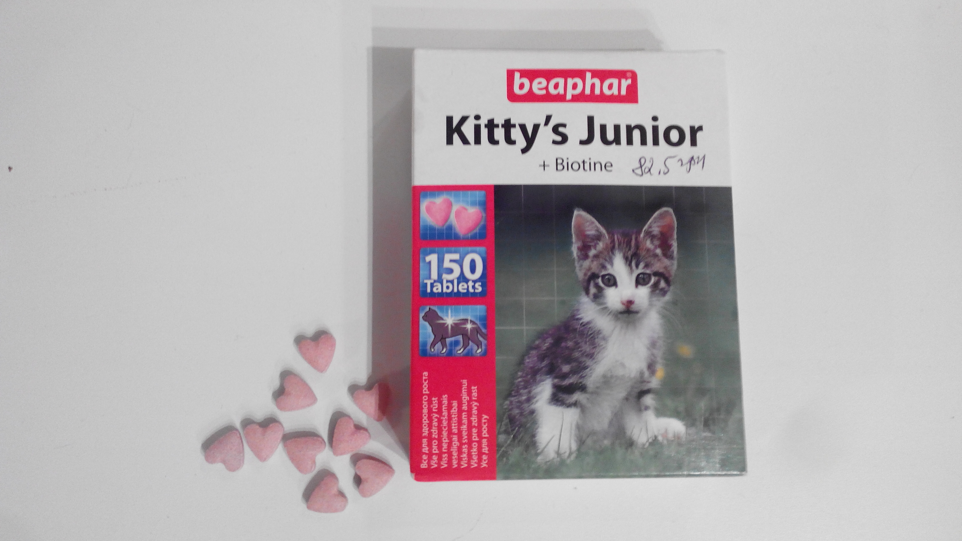 Kitty's Junior treats for kittens. Produced by Beaphar (The Netherlands)